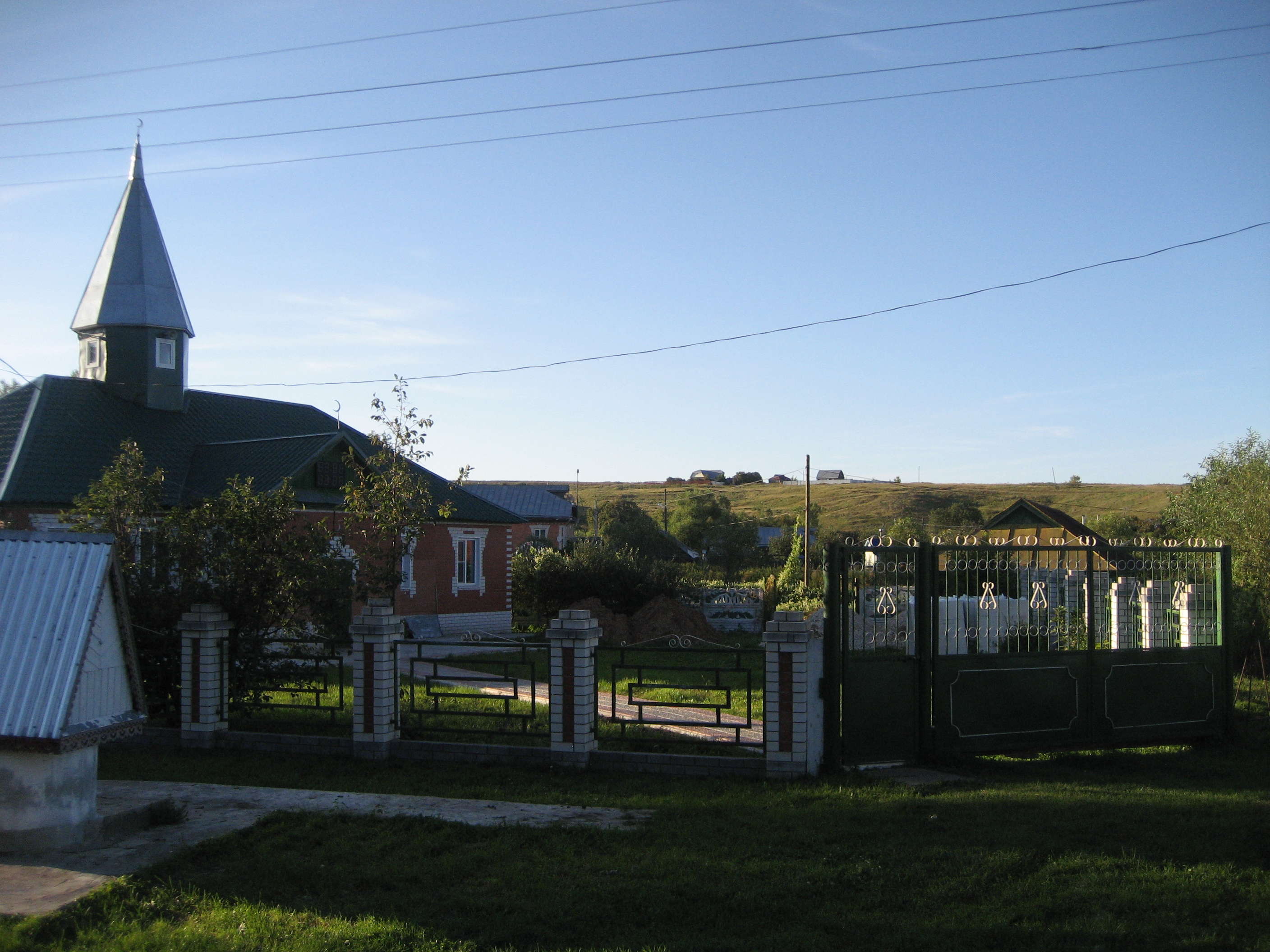 Mosque near the lake - Inesh.